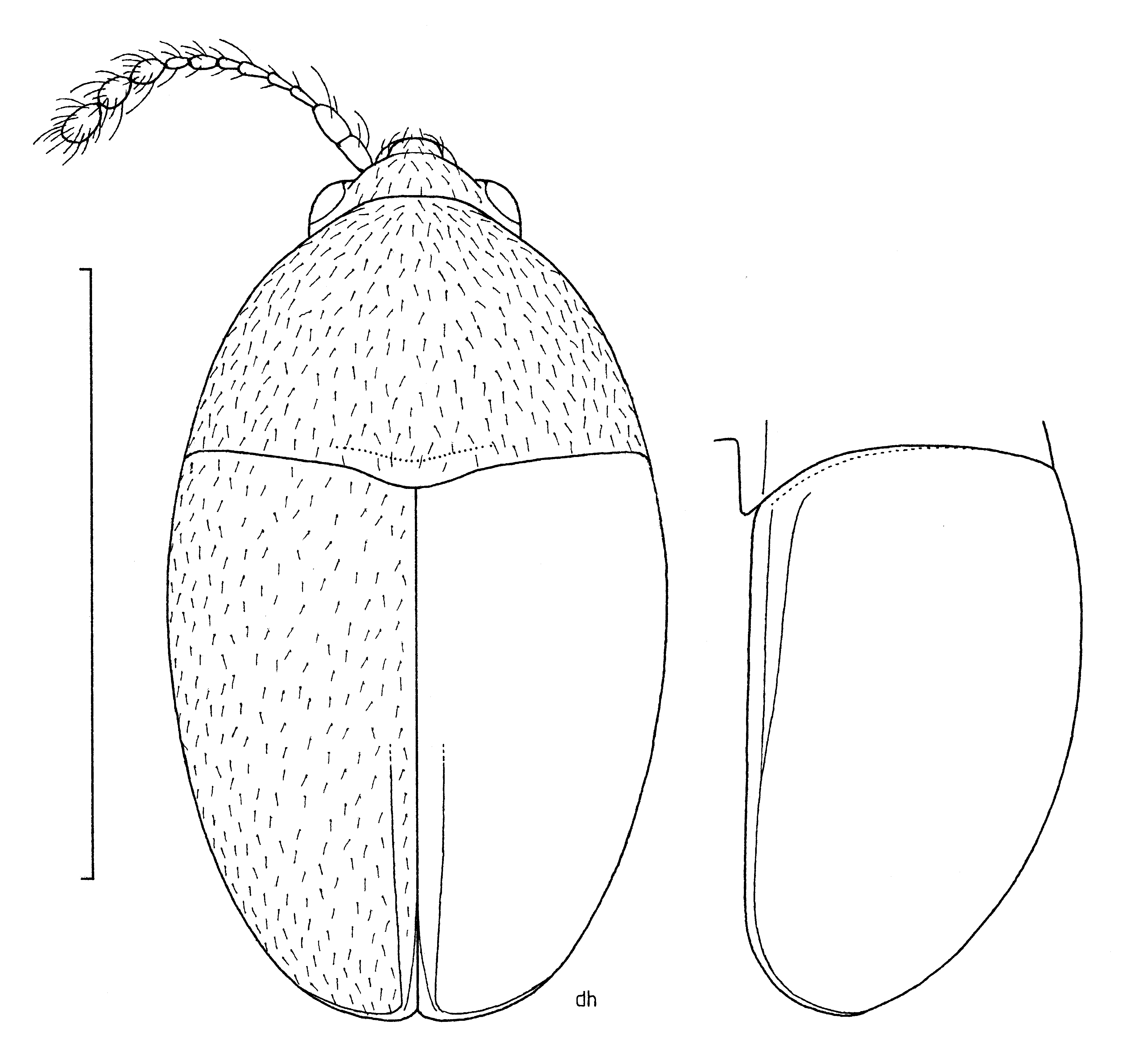 (Coleoptera: Staphylinidae) Baeocera punctatissima illustrated by Des Helmore.